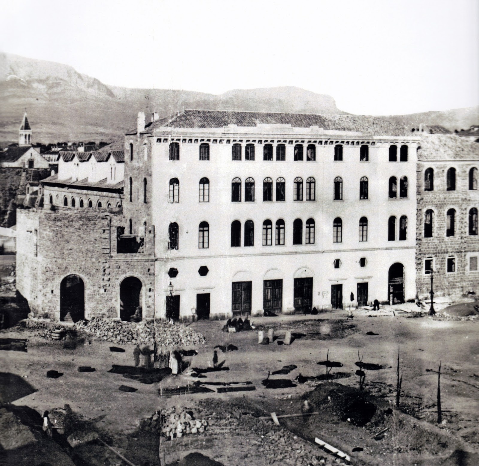 19th century Bajamonti Theater in Split, Croatia